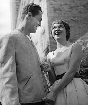 Brazilian goalkeeper Gilmar along with a fan of him.